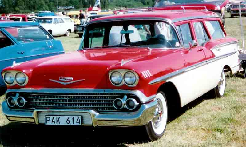 Chevrolet Nomad Stationwagon 1958